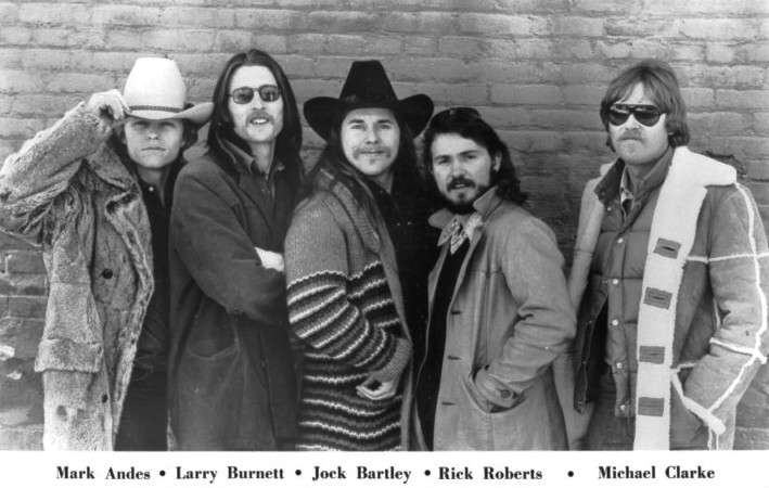 Publicity photo of the musical group Firefall.